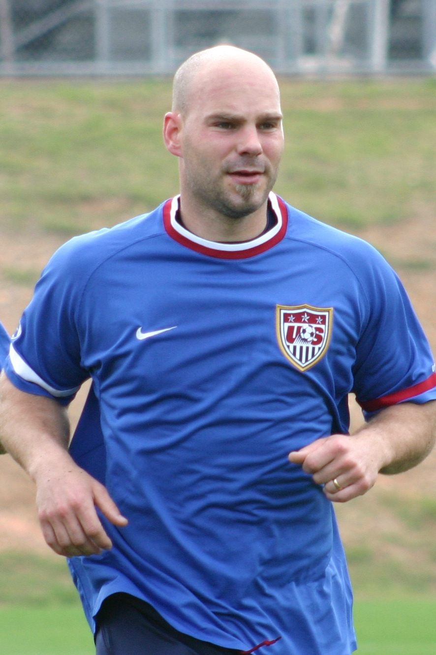 Marcus Hahnemann during USMNT practice session